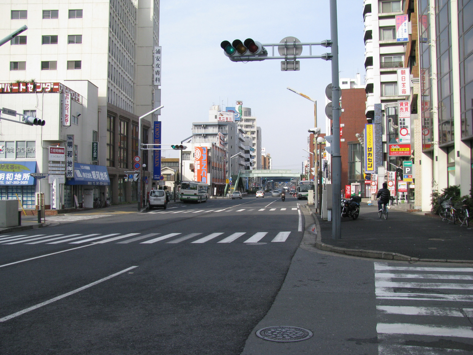 Urayasu station on Tokyo Metro Tozai Line